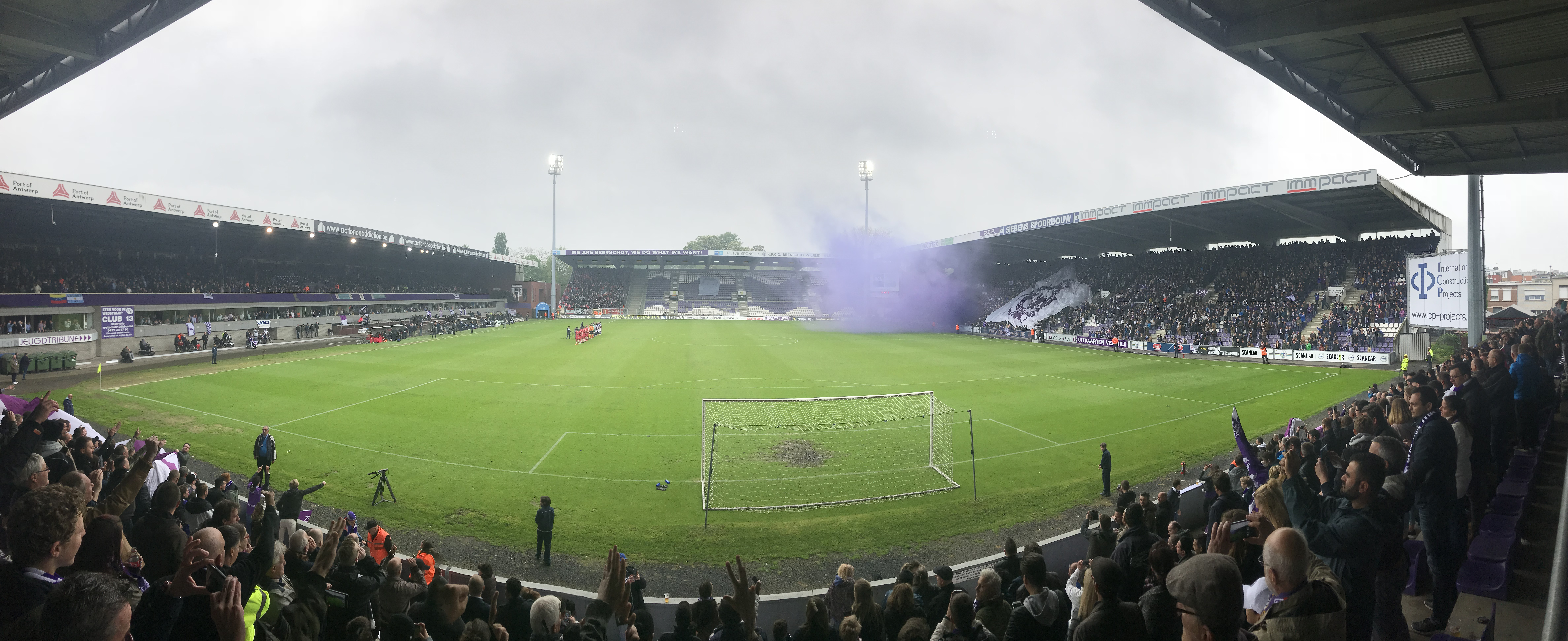 Olympisch Stadion Antwerp, derby Beerschot - Antwerp (0-0), 29 april 2018